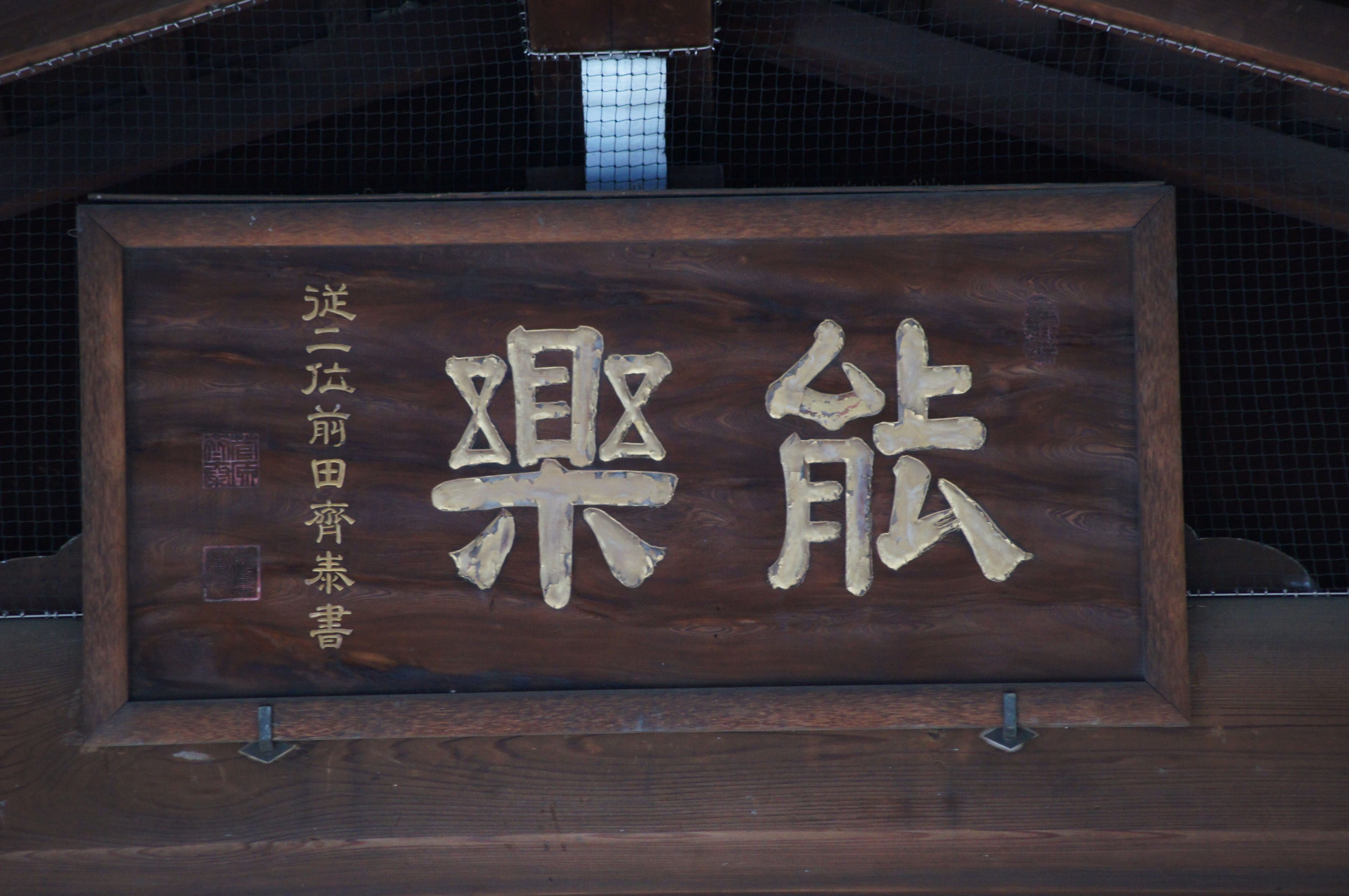 Yasukuni Shrine Nogakudo